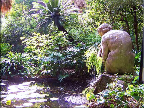 Scuplpture of a nymph at the Malaga Botanic Garden